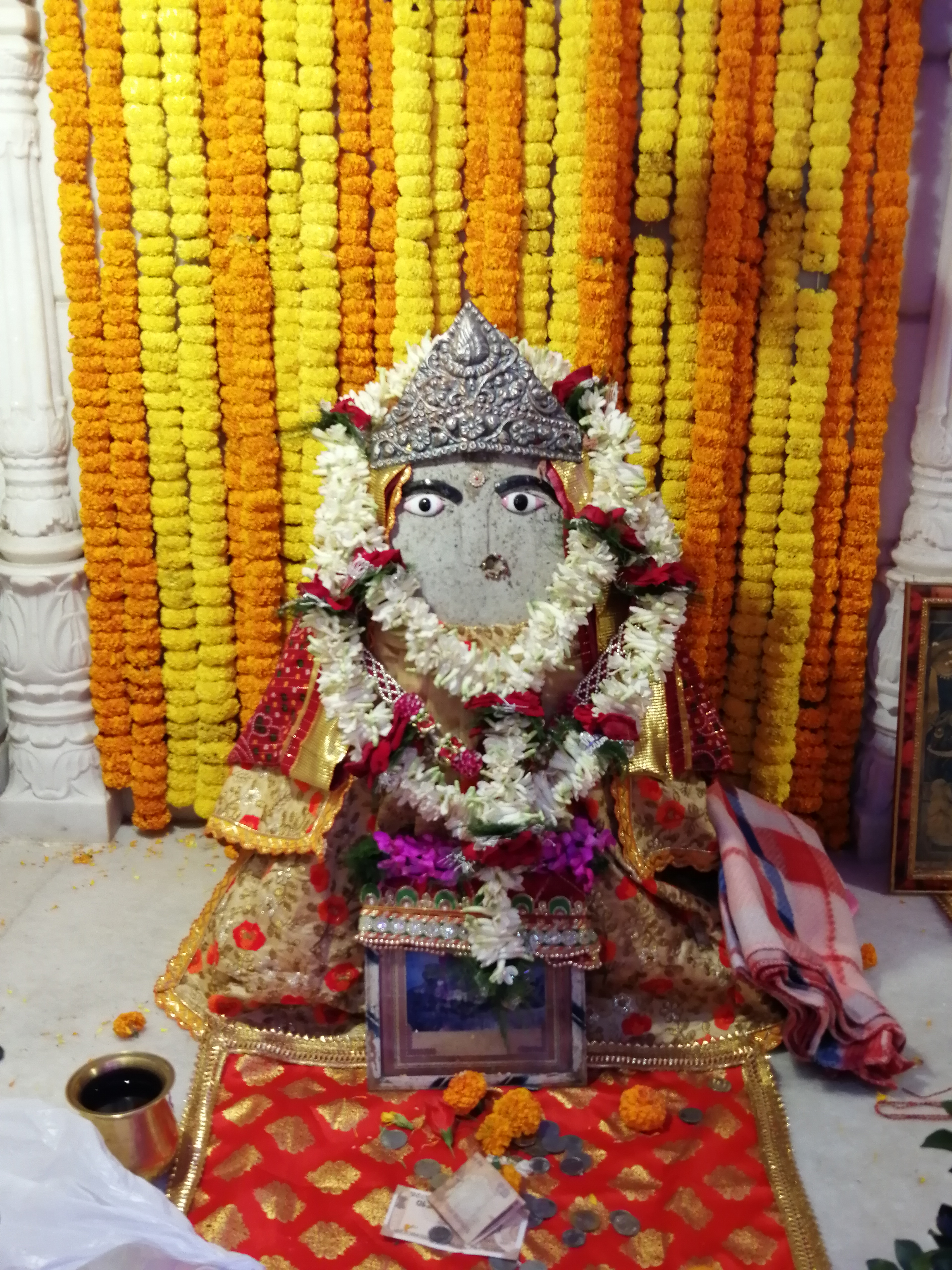 Shree dadiji 01.01.2019